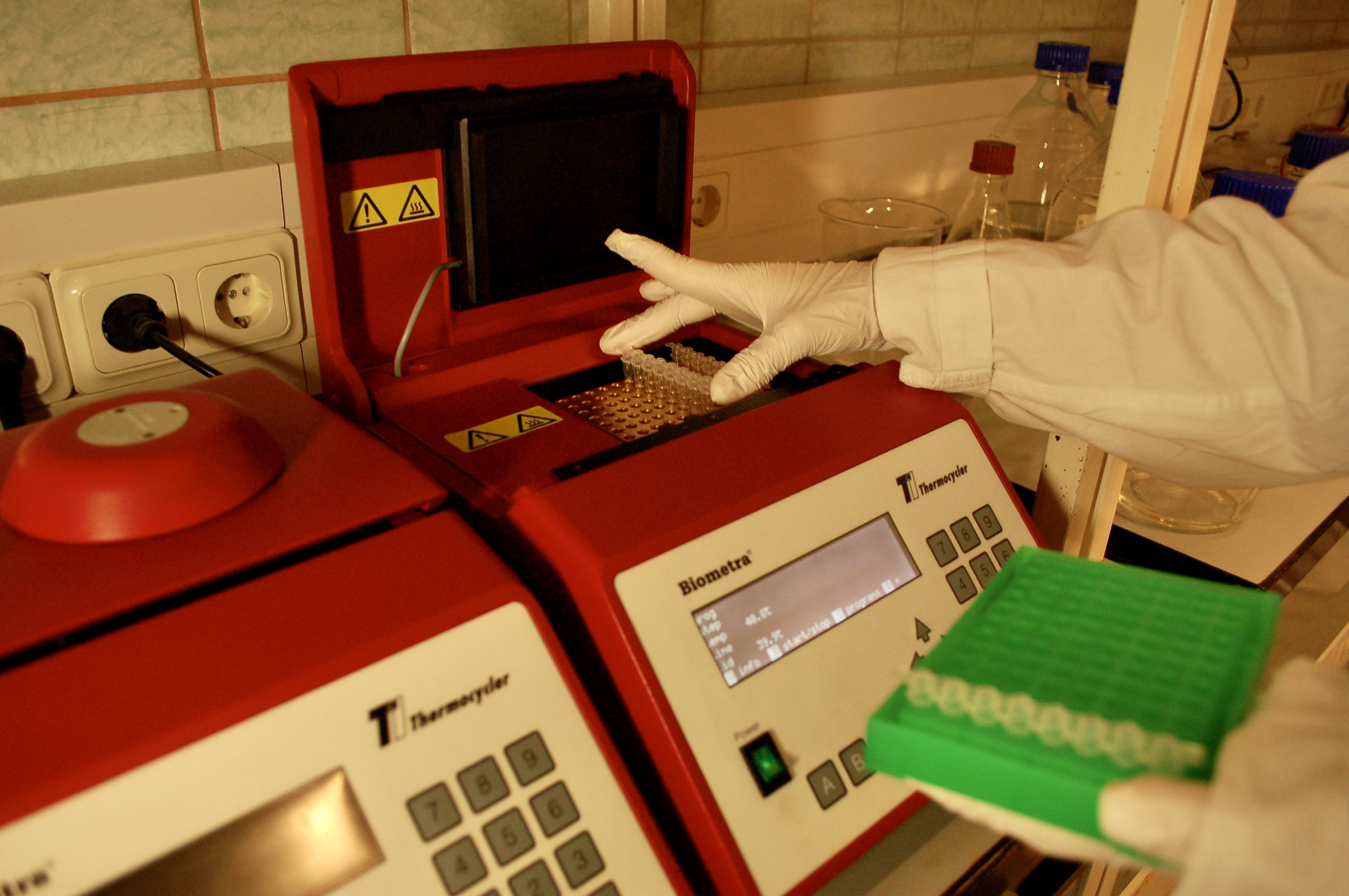 Placing a strip of eight PCR tubes into the thermal cycler in University of Tartu.